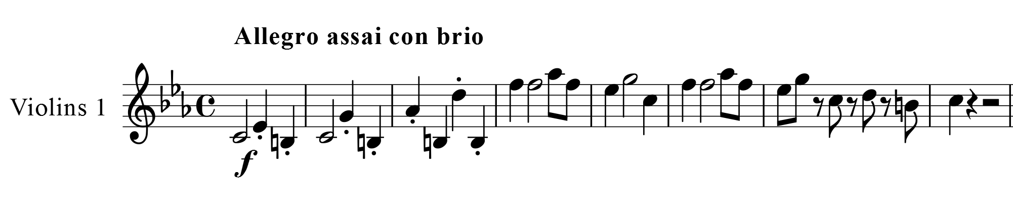 Joseph Haydn, Symphony No. 52, first movement, bar 1-8